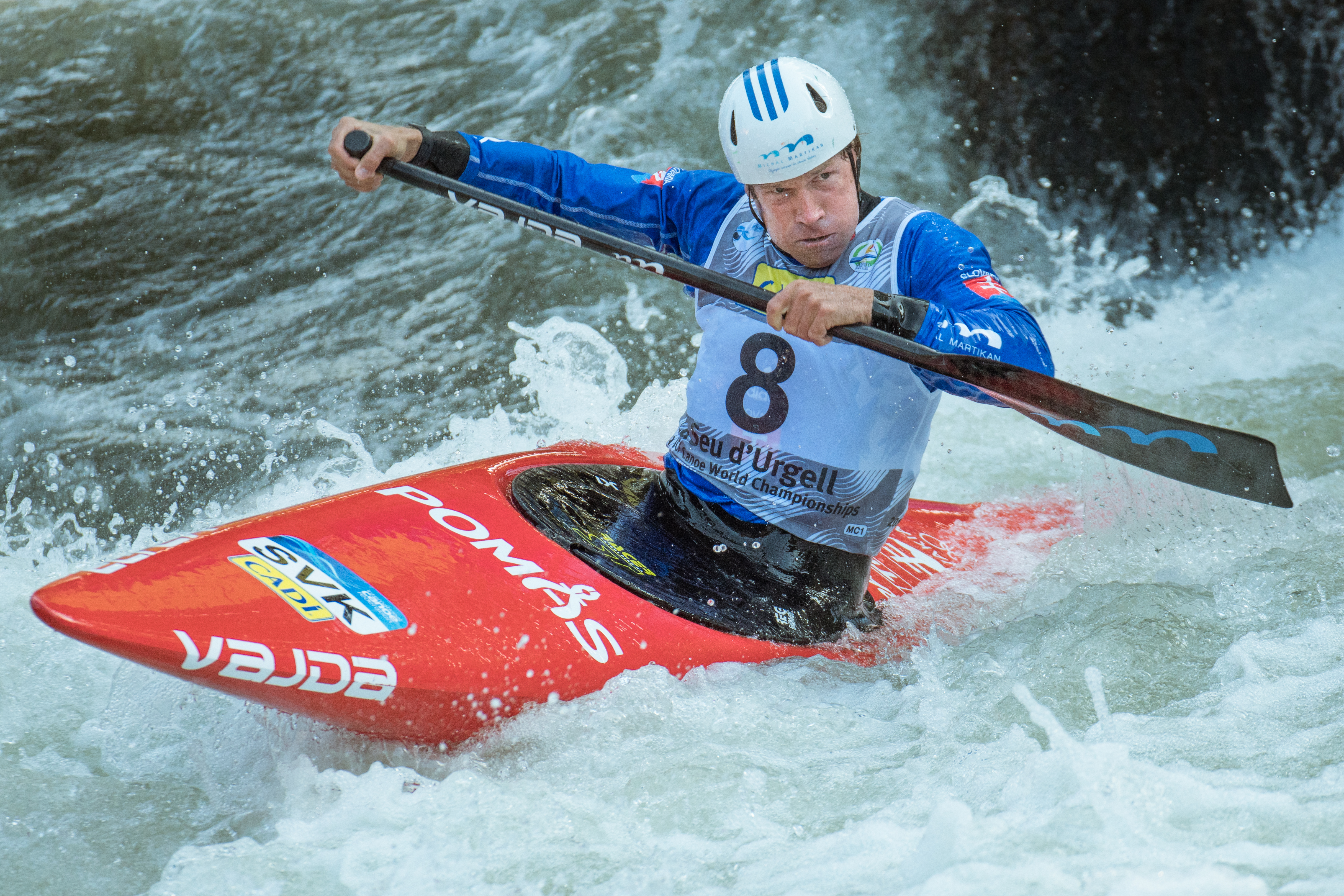 Michal Martikán during the 2019 Canoe Slalom World Championships in La Seu d'Urgell, Spain.